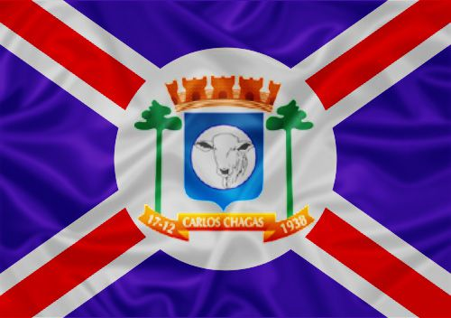 Bandeira Carlos Chagas